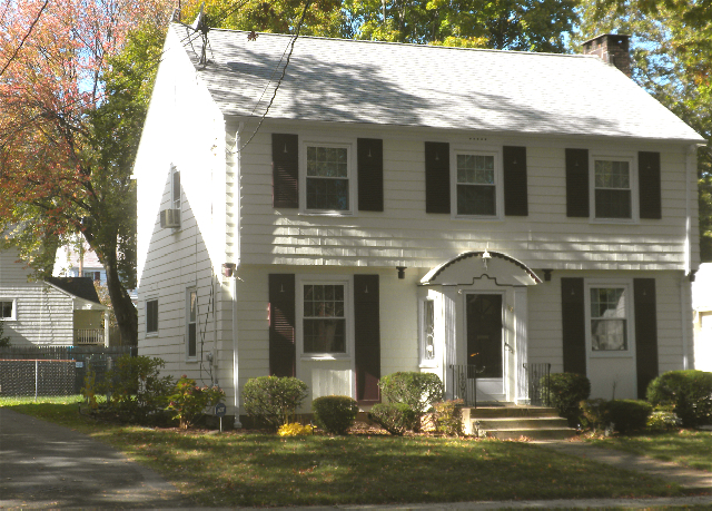 Beaver Hills Historic District, New Haven.